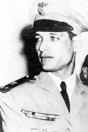 Colonel Adnan al-Malki (1918-1955), the deputy Chief-of-Staff under Hashim al-Atasi who was killed by agents of the Syrian Social Nationalist Party (SSNP) in April 1955. As a result, the SSNP was outlawed from Syria.